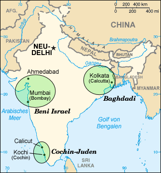 Map in German of Jewish communities in India before their emigration to Israel